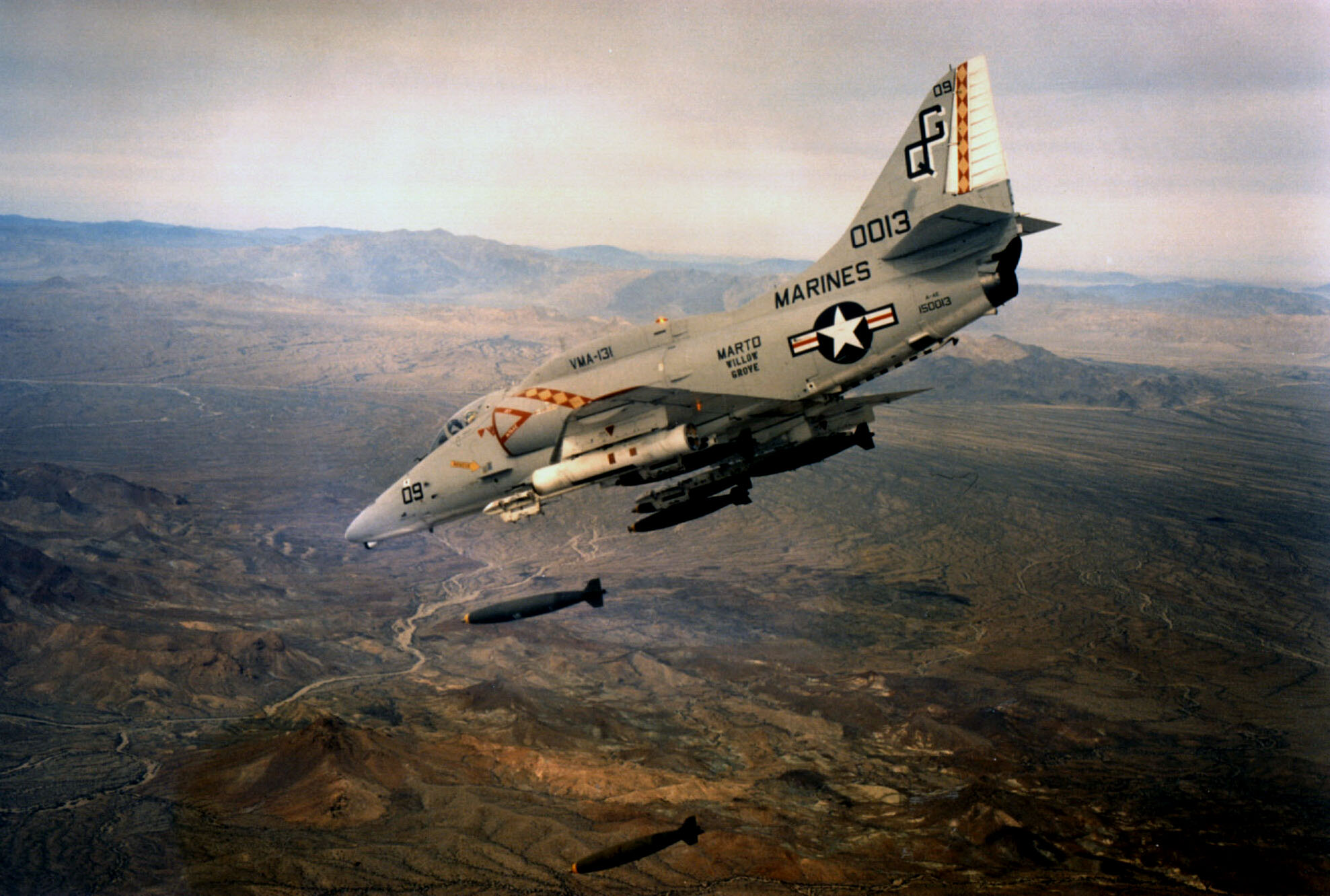 A U.S. Navy Douglas A-4E Skyhawk (BuNo 150013) of Marine Attack Squadron VMA-131 Diamondbacks assigned to the Marine Air Reserve Training Detachment (MARTD) at Naval Air Station Willow Grove, Pennsylvania (USA), unleashes bombs during a training mission.